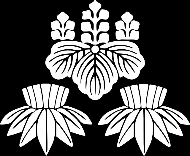 Crest of Yamana family